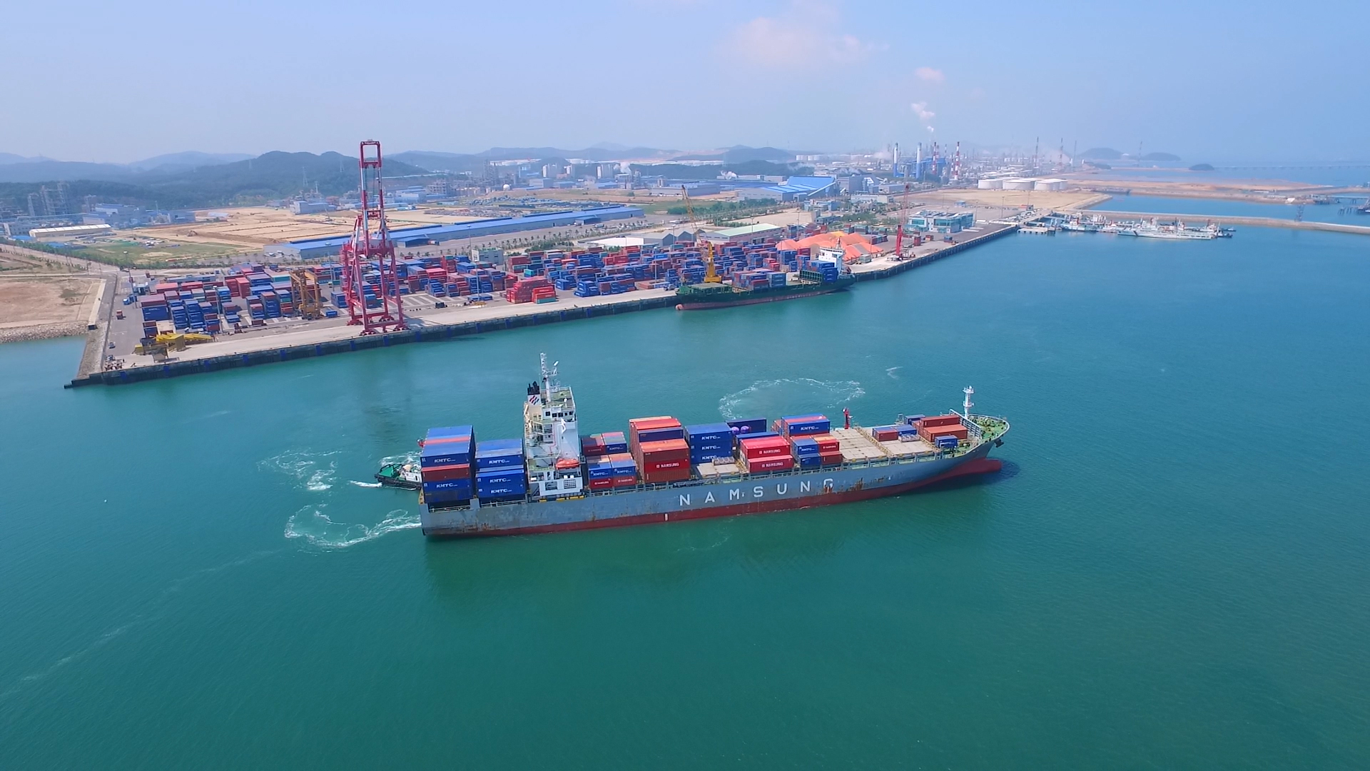 Daesan Port in Seosan City